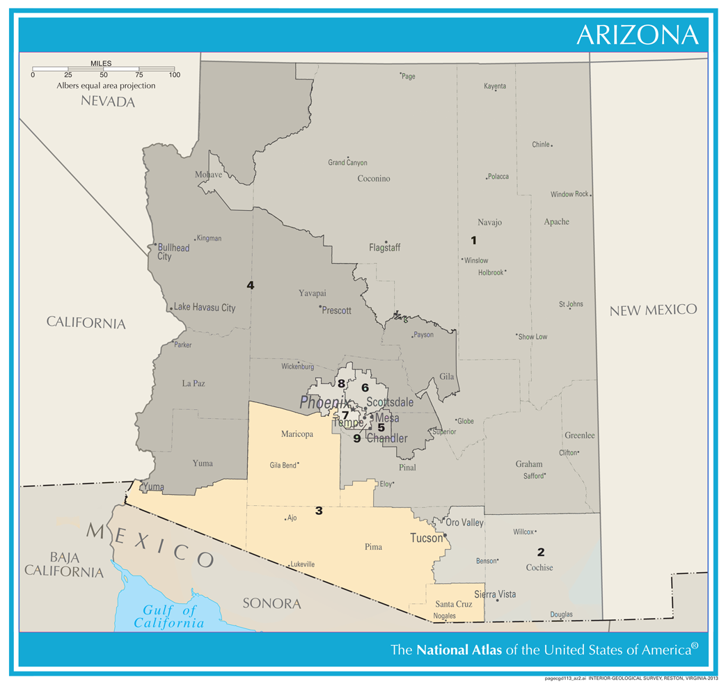 Arizona's 3rd Congressional District, as of the 113th Congress (2013).